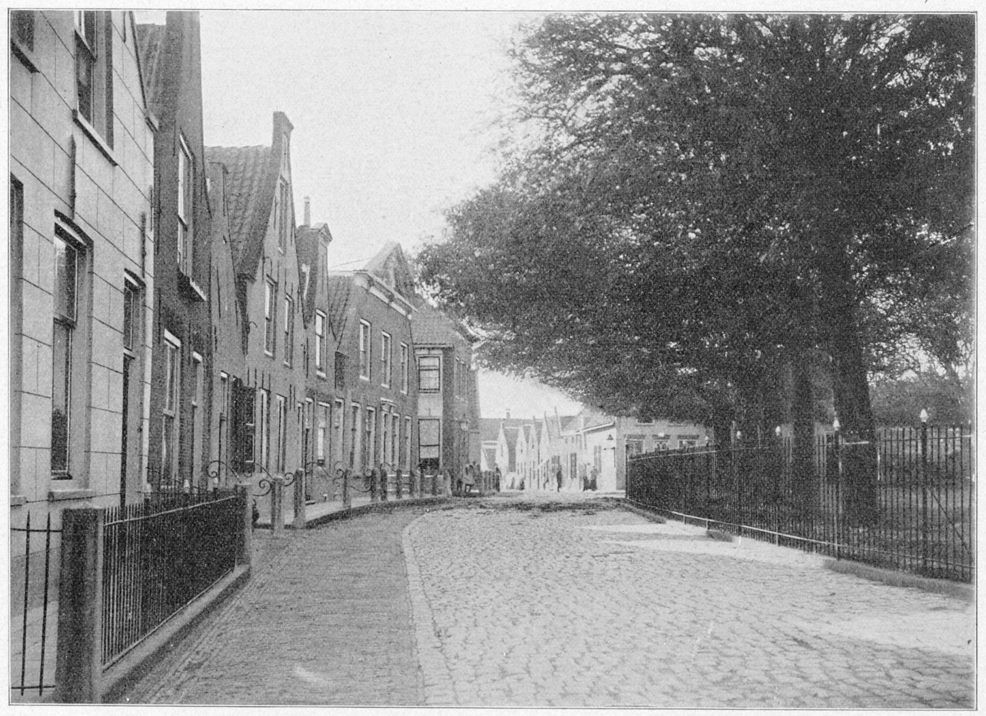 A street, the "Weststraat" in Ouddorp, The Netherlands, in 1910. The picture is scanned from a magazine "Op de hoogte, maandschrift voor de huiskamer" from 1910, but the picture itself might be taken in 1909. The photographer is "H.L. Vogel", and he was photographer and was publisher in Goedereede. See also File:Netherlands-Ouddorp-Weststraat-2009.jpg for the same point of view in 2009.